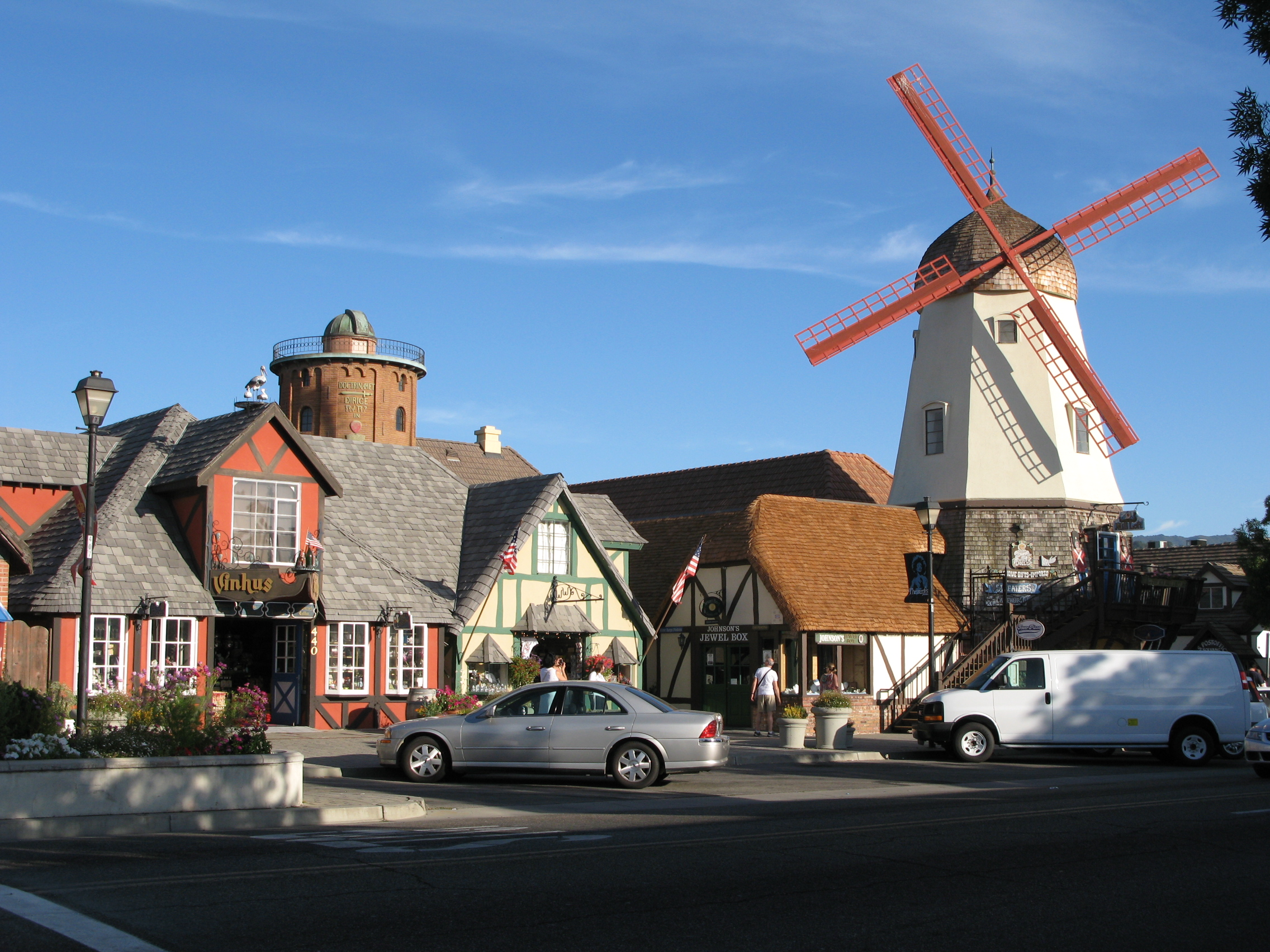 Solvang, California